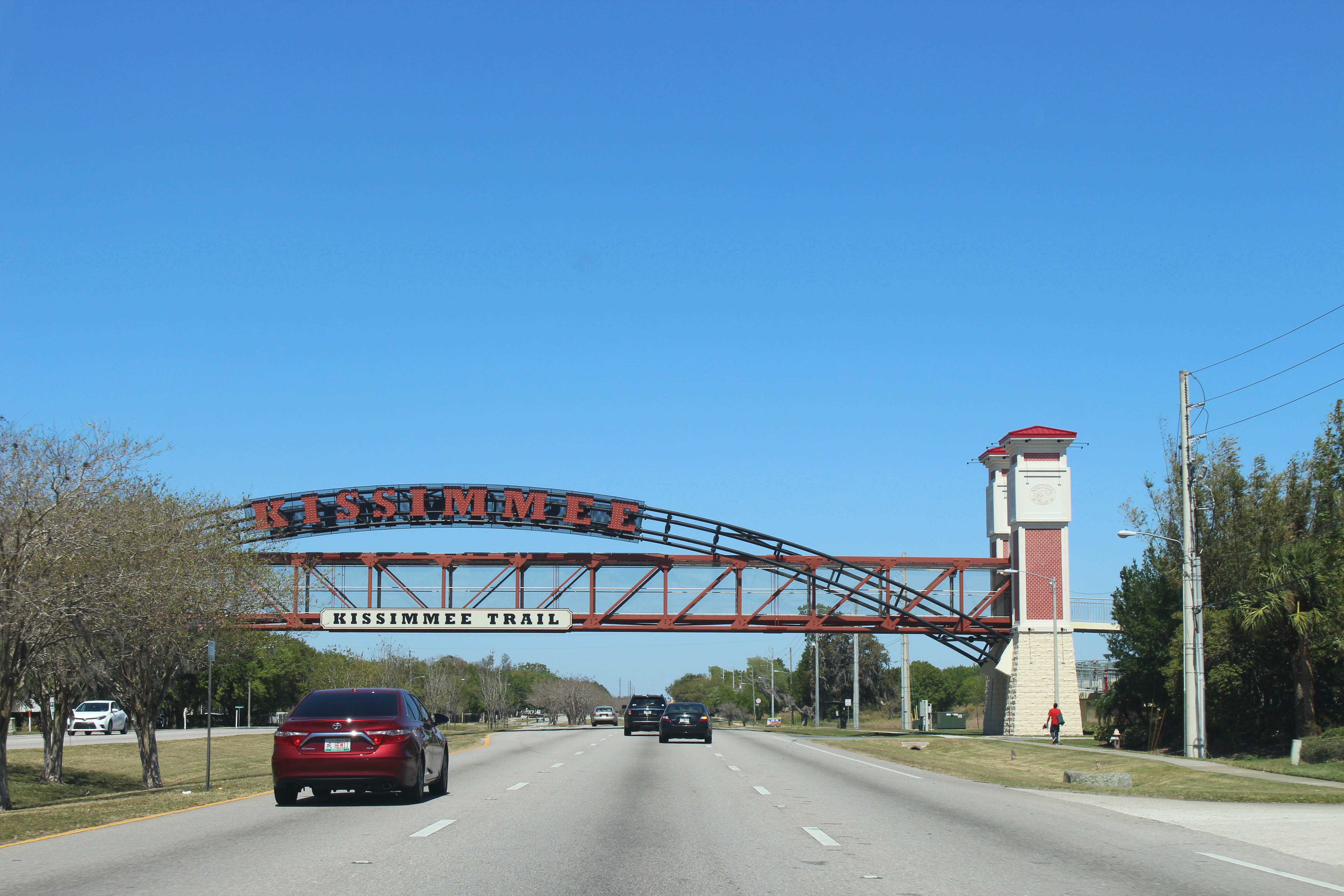 Kissimmee Trail over N John Young Pkwy, Osceola County, Florida